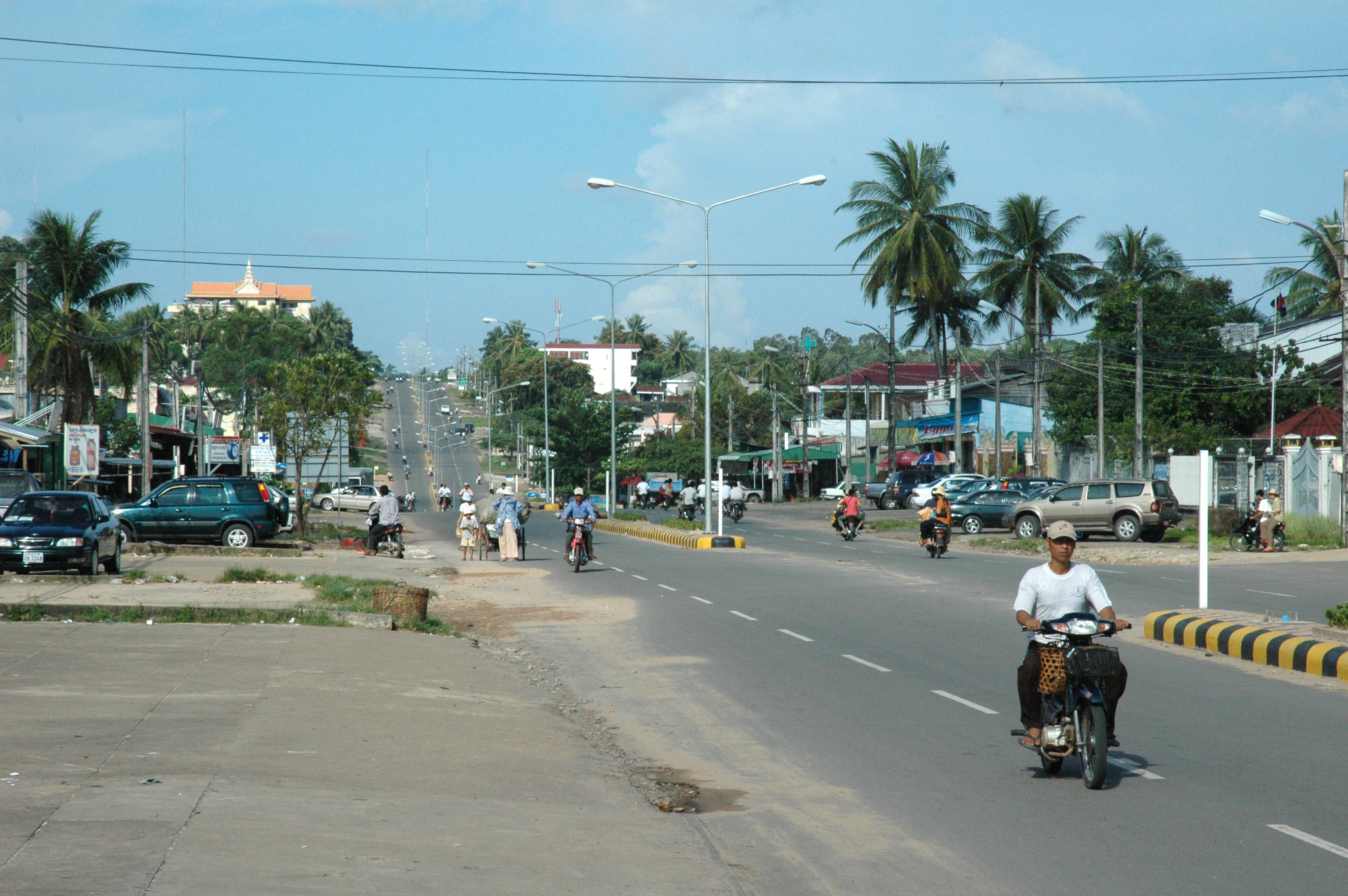 Central Sihanoukville.